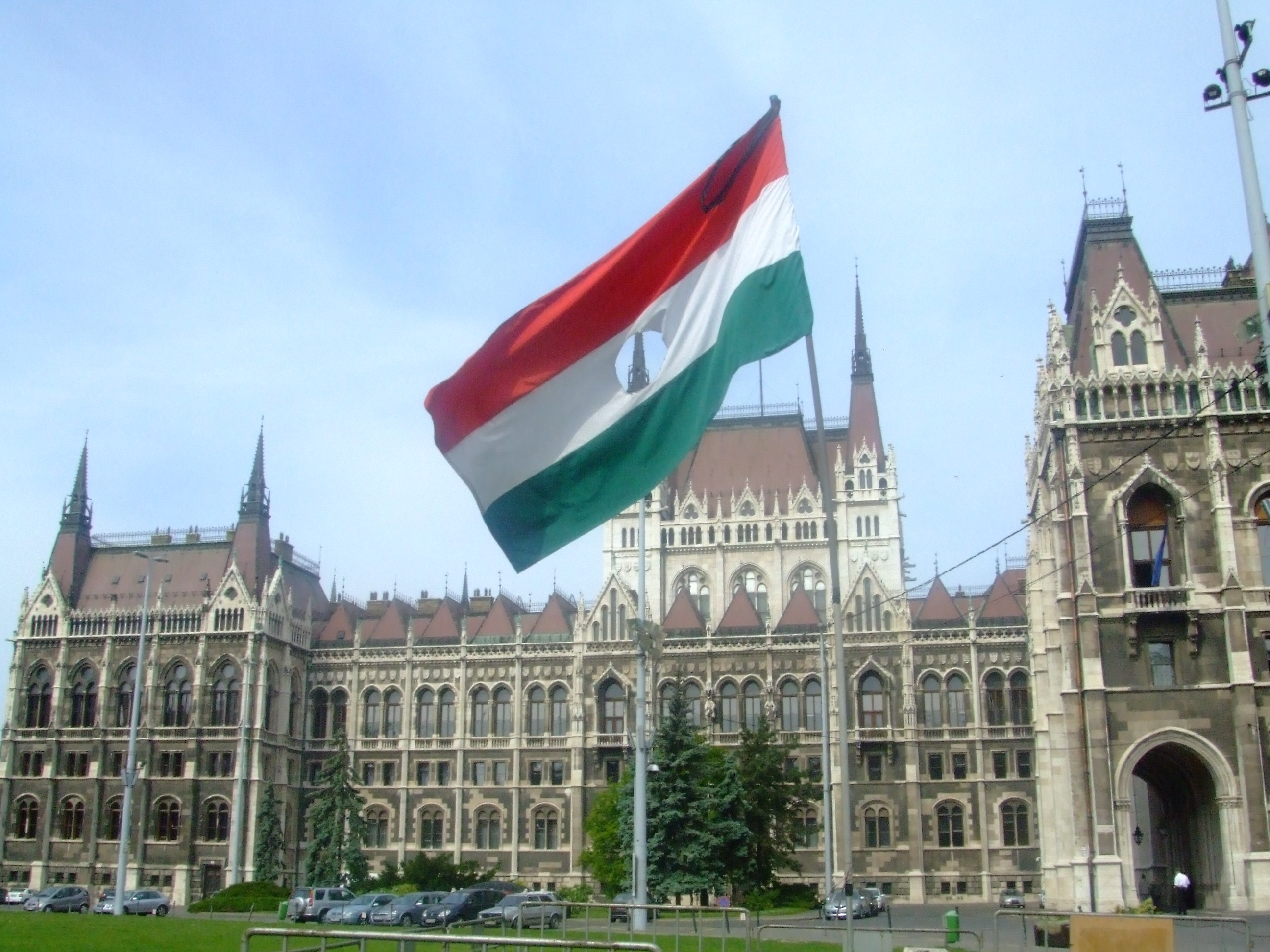 A flag from the 1956 Hungarian Revolution on the memorial to the victims located outside the Hungarian Parliament Building